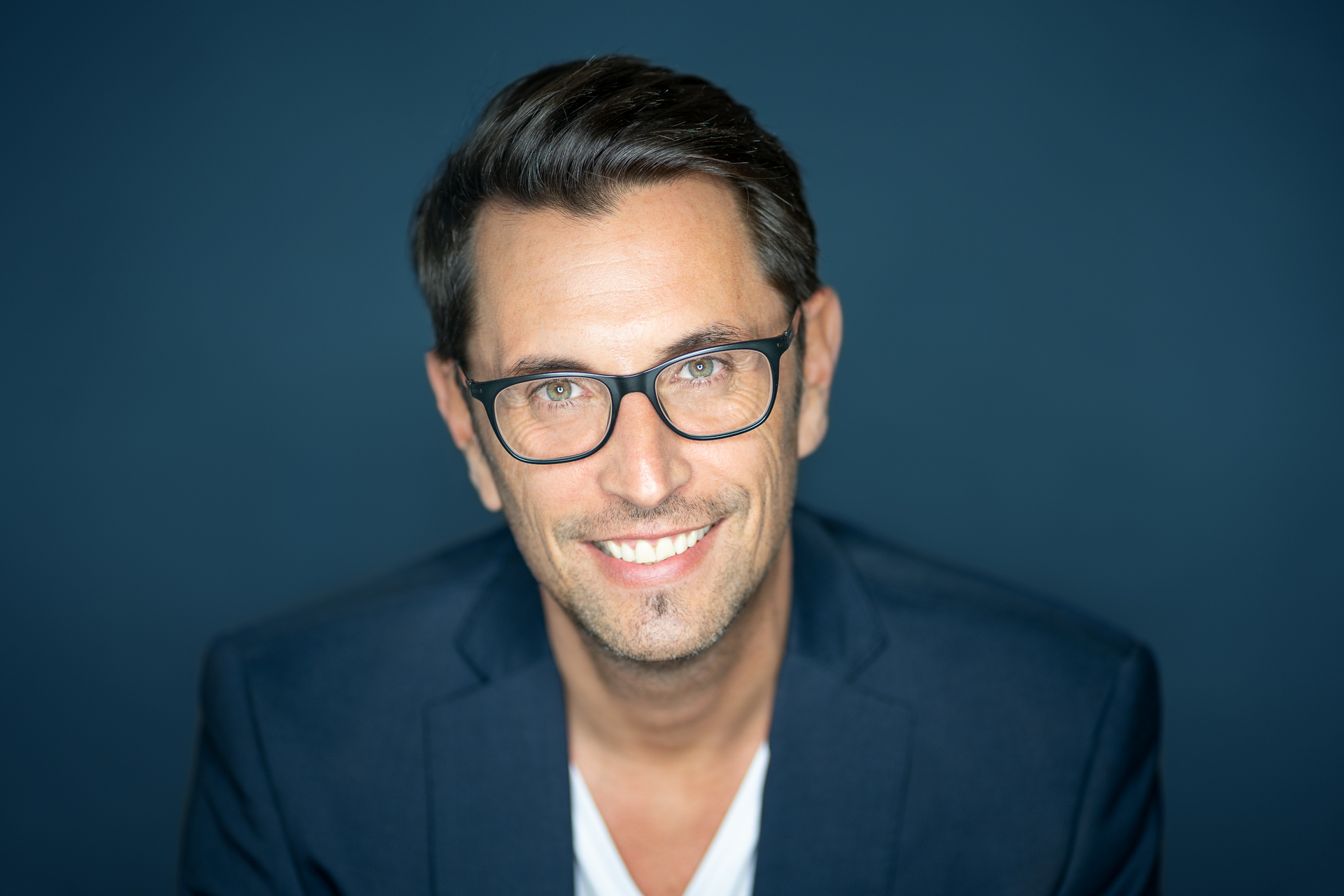 Daniel Troha